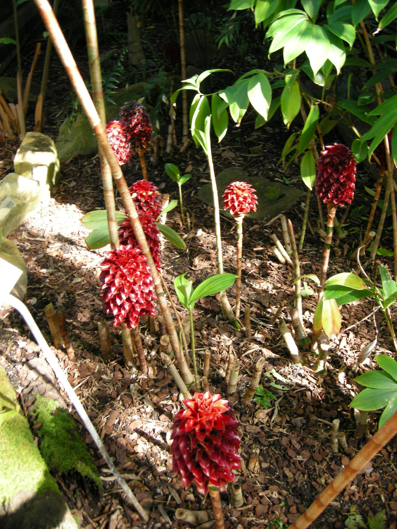 Royal Botanic Gardens, Sydney